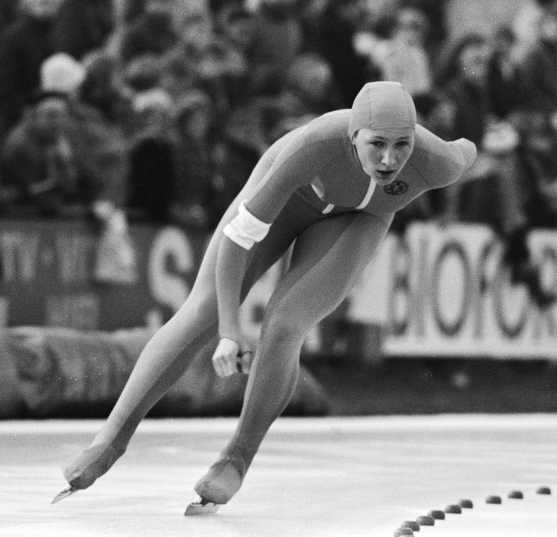 EK schaatsen vrouwen in Heerenveen. Karin Enke in actie op de 5000 meter.